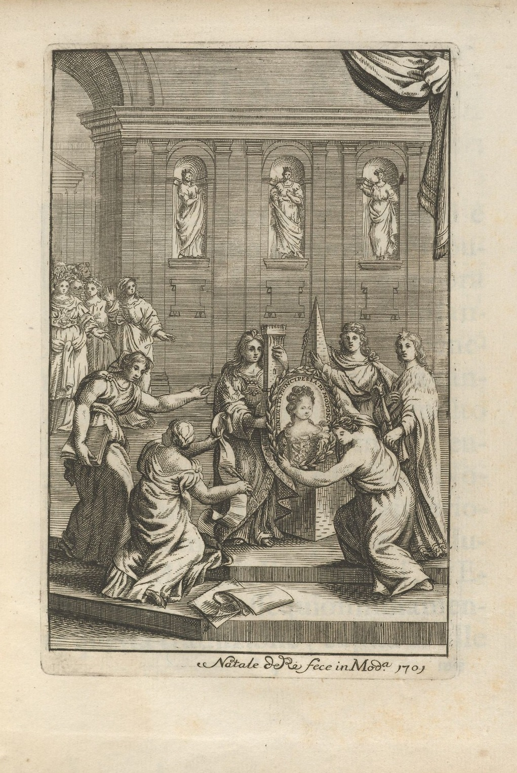 Engraving following the title page from La galleria delle donne forti, 1701, by Pierre le Moyne (1602-1671/1672). Typ 725.01.515, Houghton Library, Harvard University